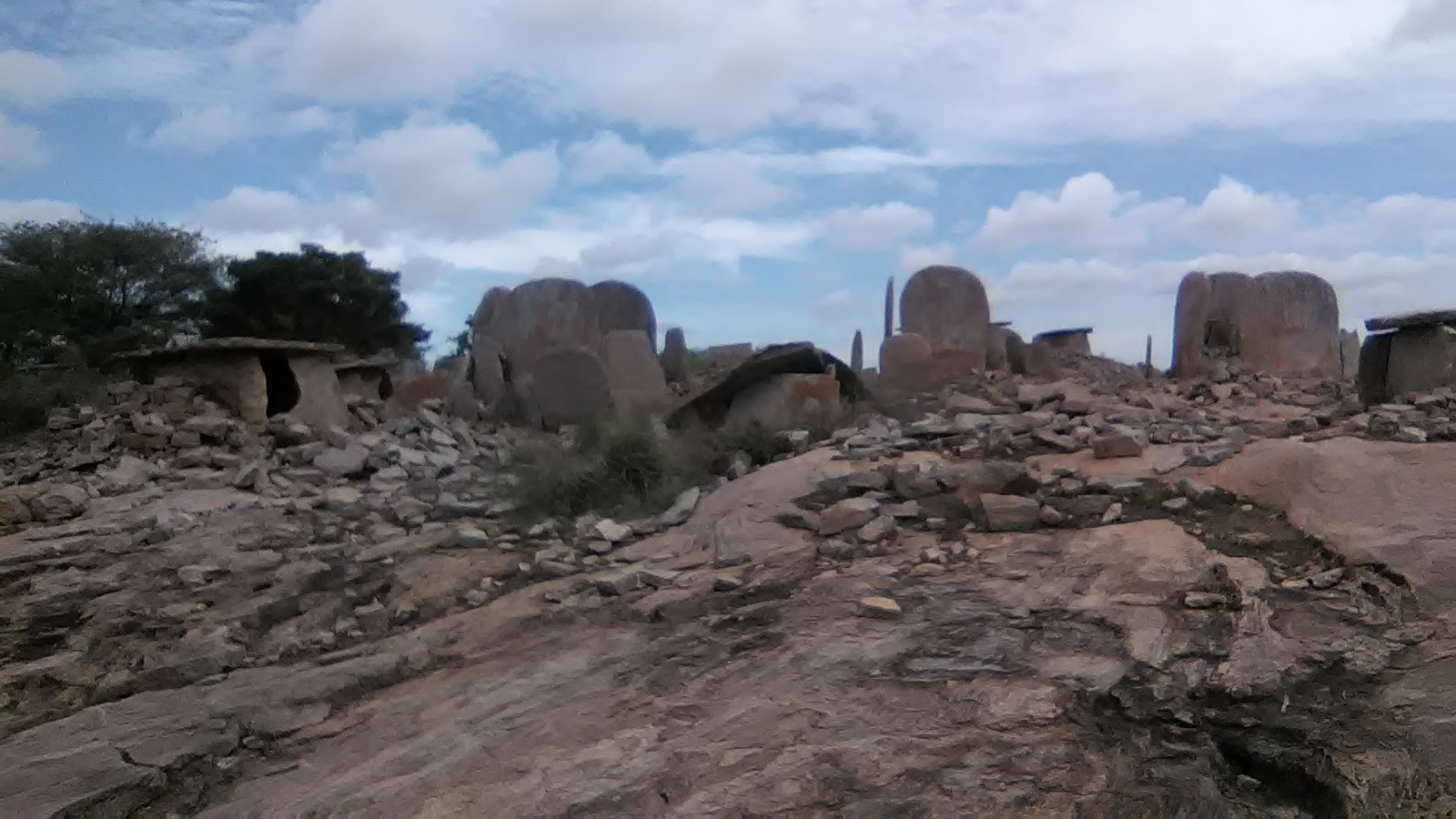 moralparai ston age memorials